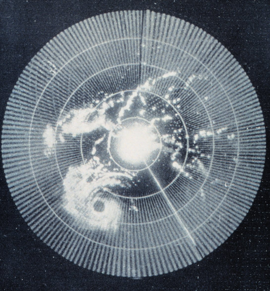 Hurricane Abby approaching the coast of British Honduras. The complete eyewall cloud is visible. Location: Near British Honduras (Belize)